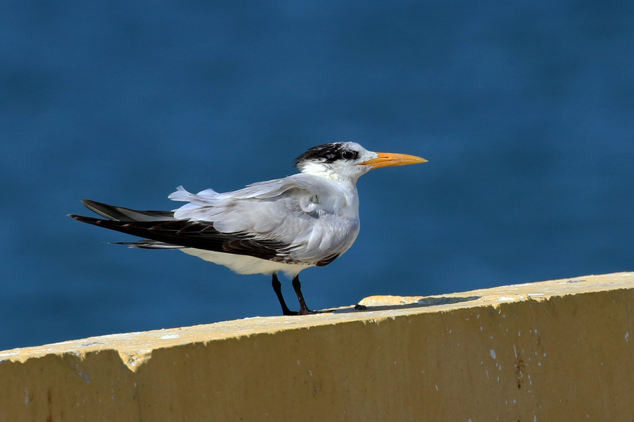 Royal tern (Thalasseus maximus albidorsalis) juvenile winter plumage, Cuba